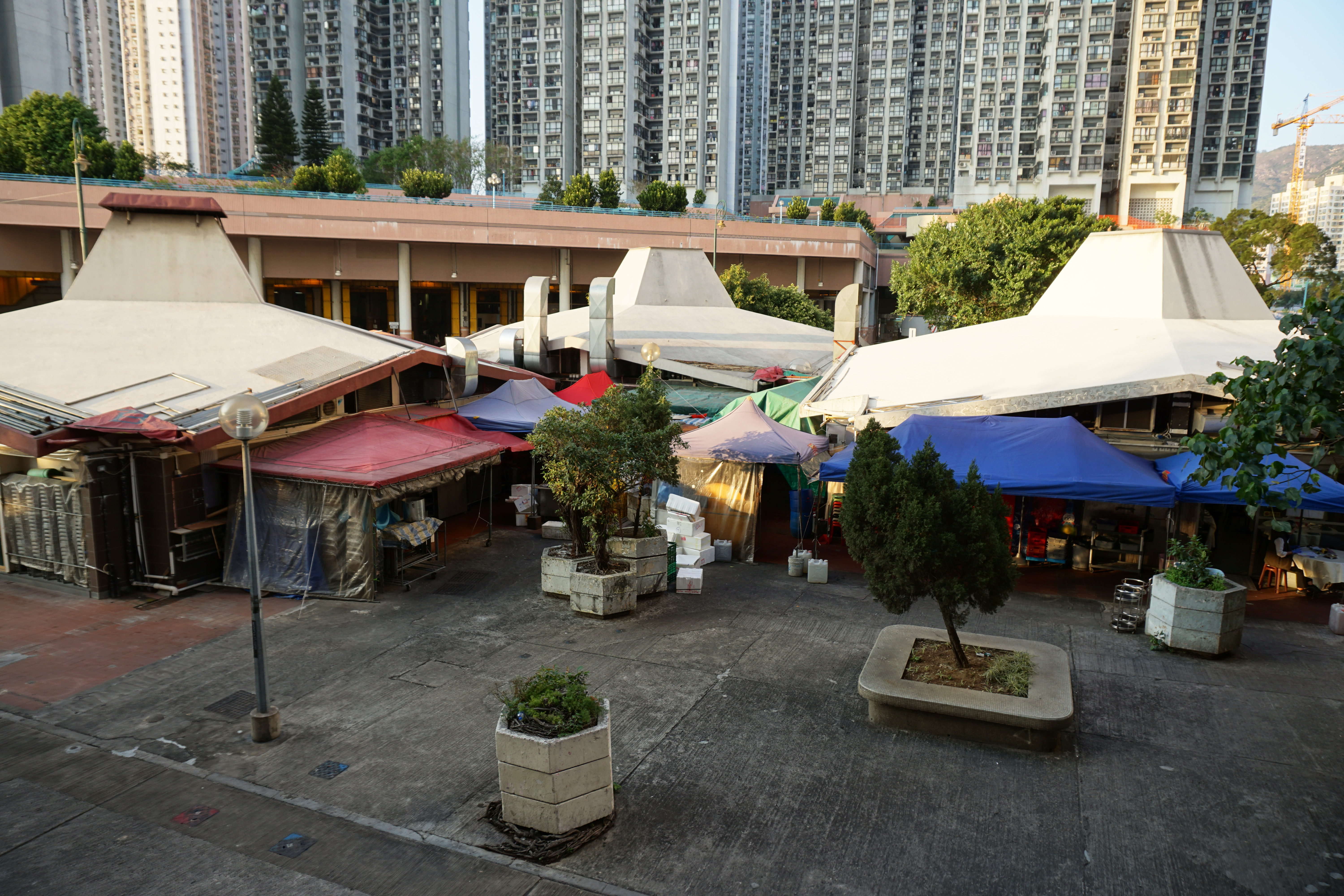 Sam Shing Estate in Tuen Mun, Hong Kong.